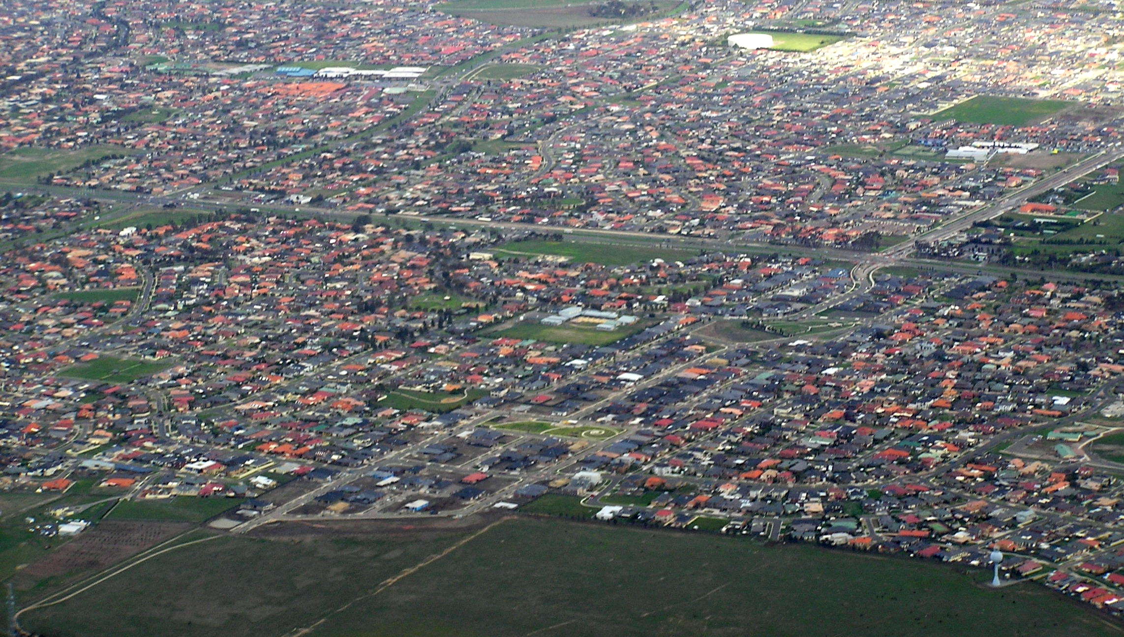 Hillside Victoria aerial photo from north west. The Calder Park Drive cuts off the top left corner, is the eastern boundary of Hillside suburb. The southern boundary is behind the reservoir